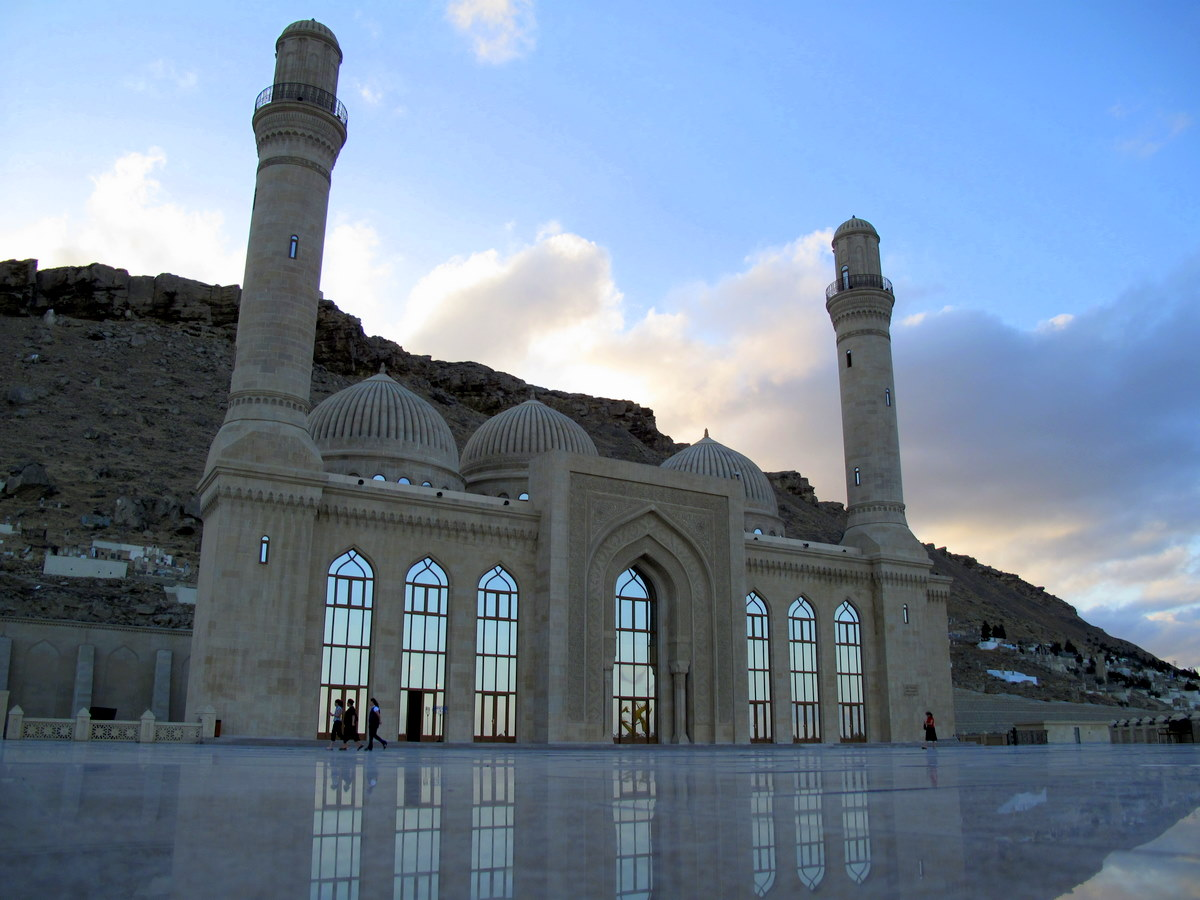 Dramatic setting between mountain, highway, and ship repair yards and oil equipment. Look in the distance and also in the reflections.